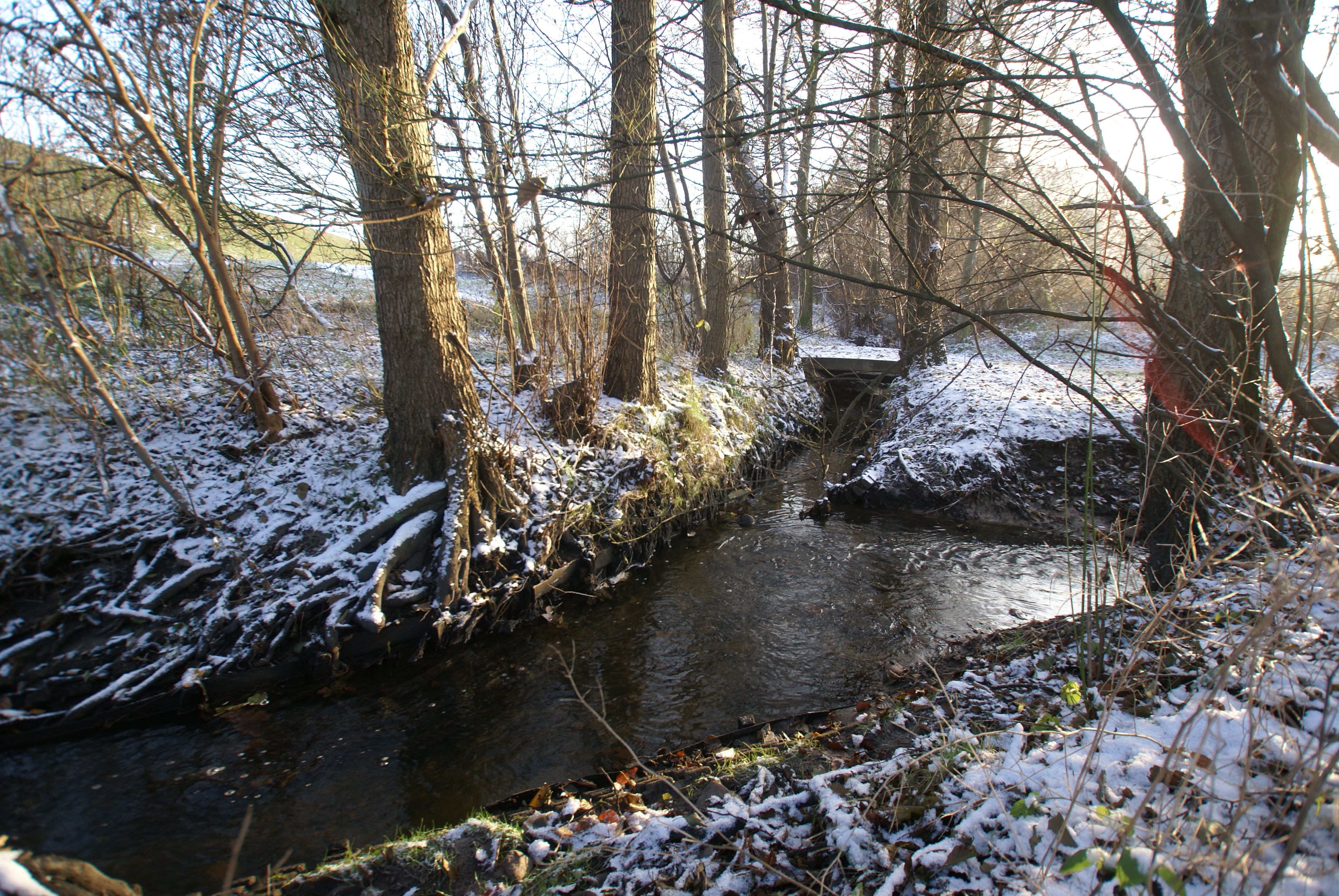 Hamburg (Eidelstedt), Germany: Confluence of the river Mühlenau an the Düngelau